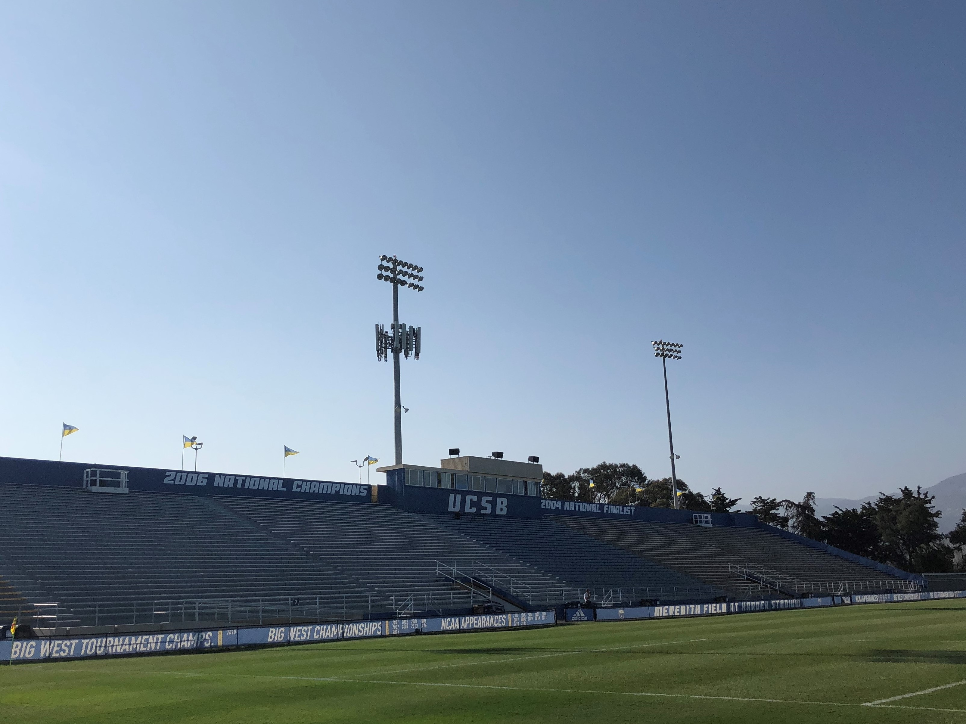 Meredith Field at Harder Stadium